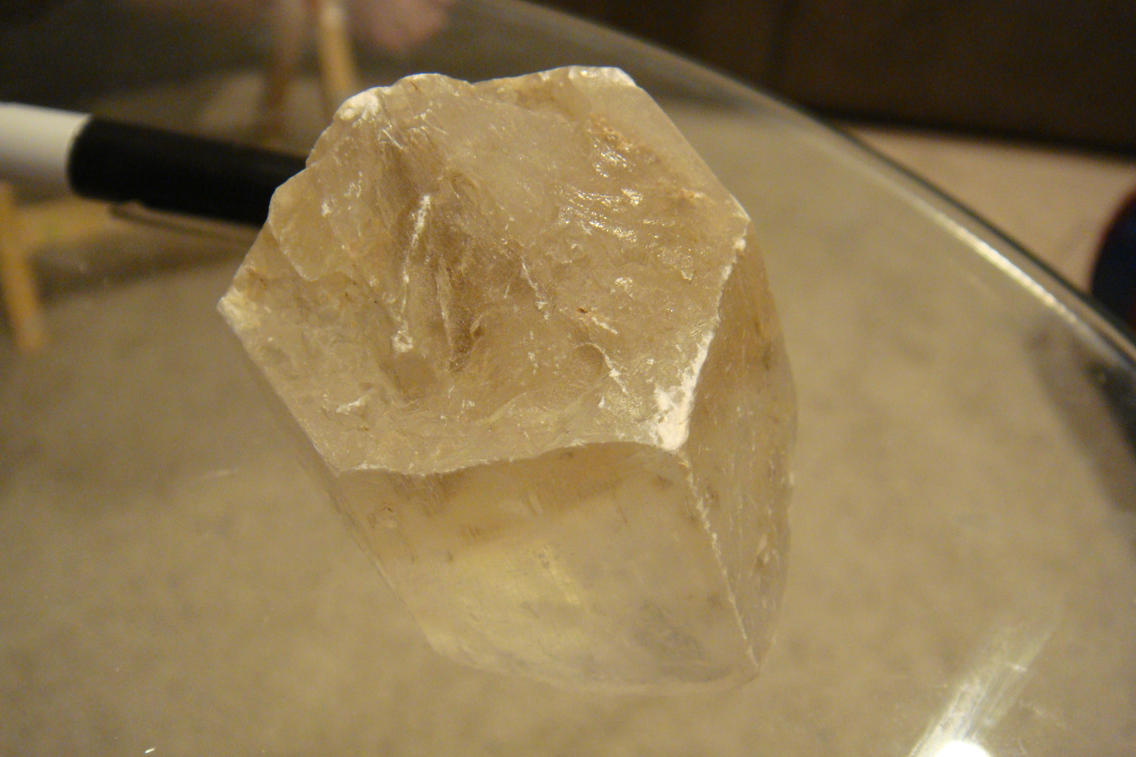 Hanksite crystal from Searles Lake, California. Pen in background for scale.